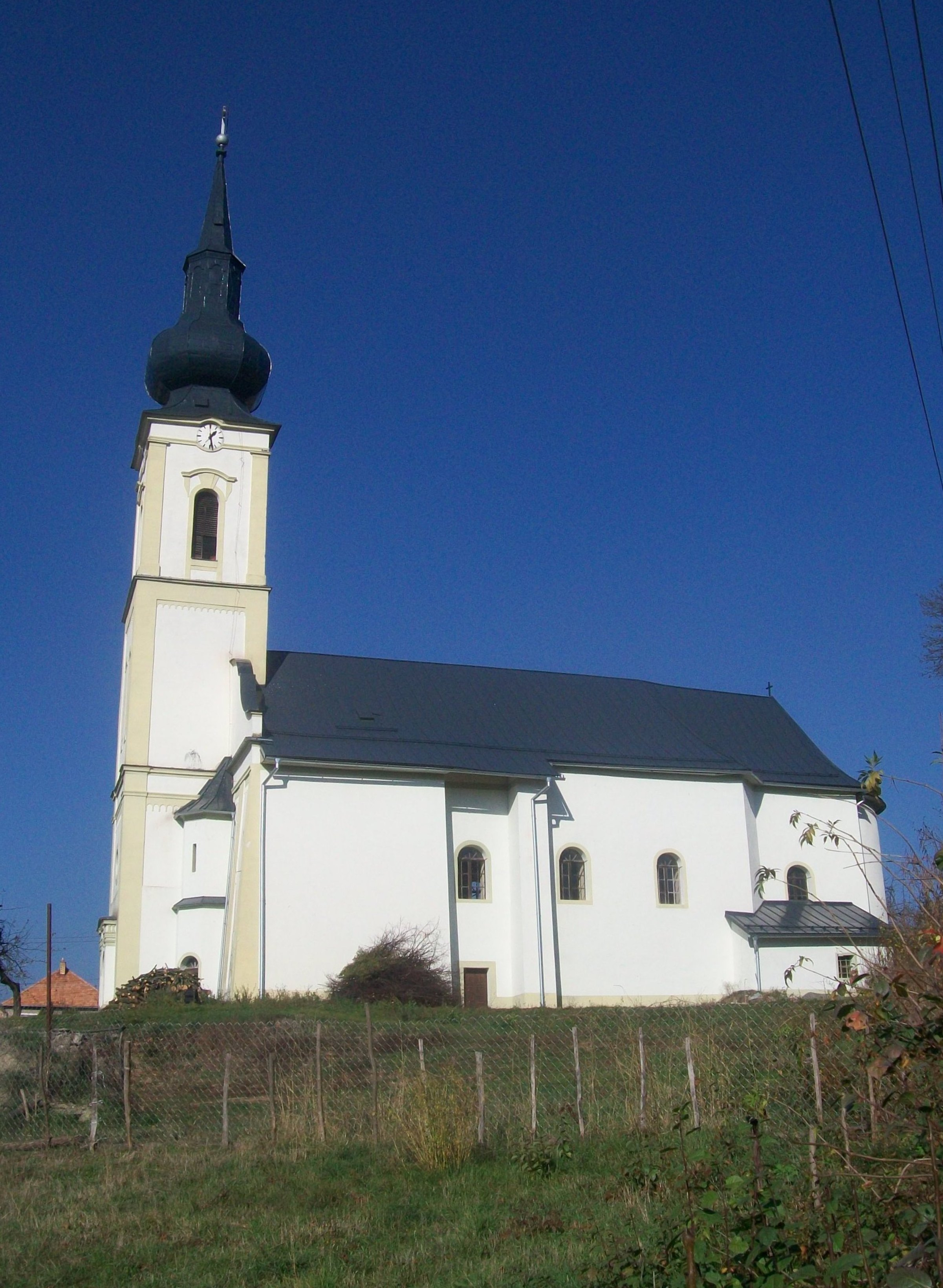 Dolná Strehová - Evangelical Church of 1652, Baroque-classic rebuilt in 1819 and the altar from the year 1654.